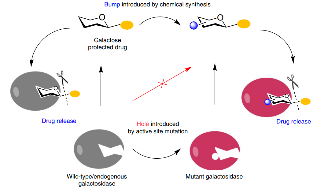 this is wikipic 5